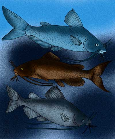 Reconstructions of the extinct catfishes of the family Andinichthyidae, of Cretaceous South America. At top is Andinichthys bolivianensis, middle is Hoffstetterichthys puca, and bottom is Incaichthys suarez.